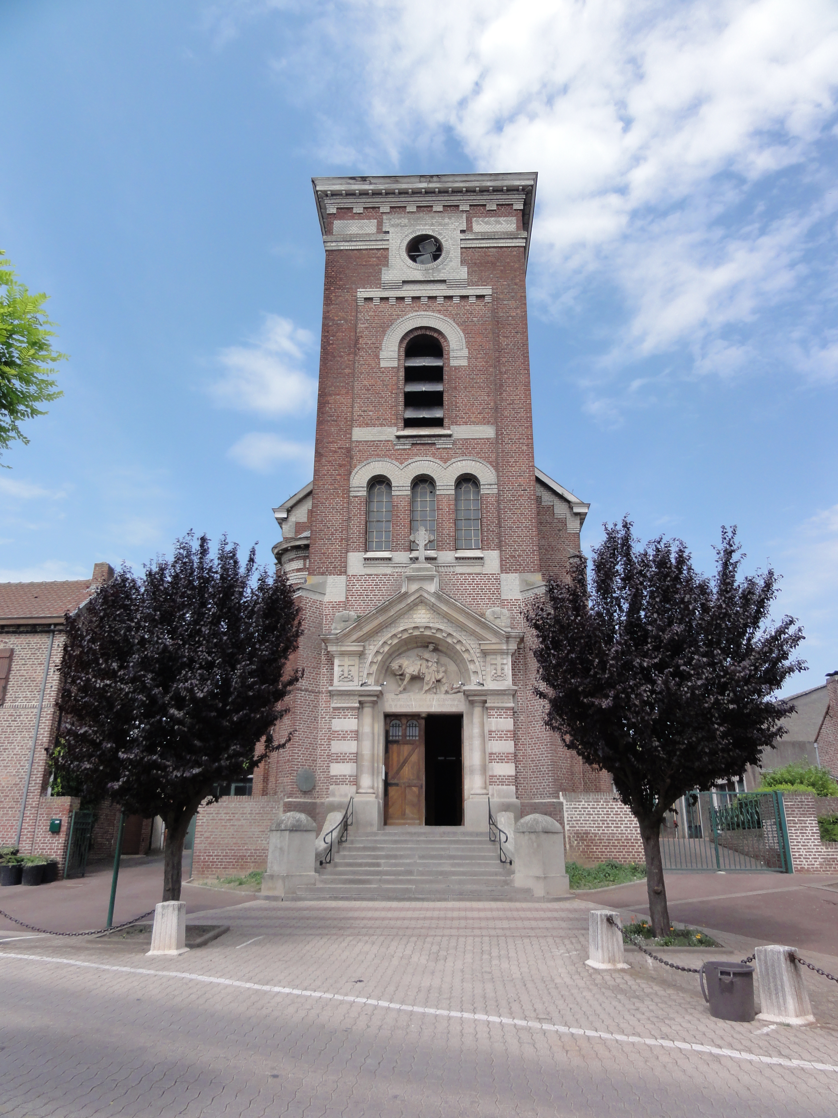 Aulnoy-lez-Valenciennes (Nord, Fr) église, façade .